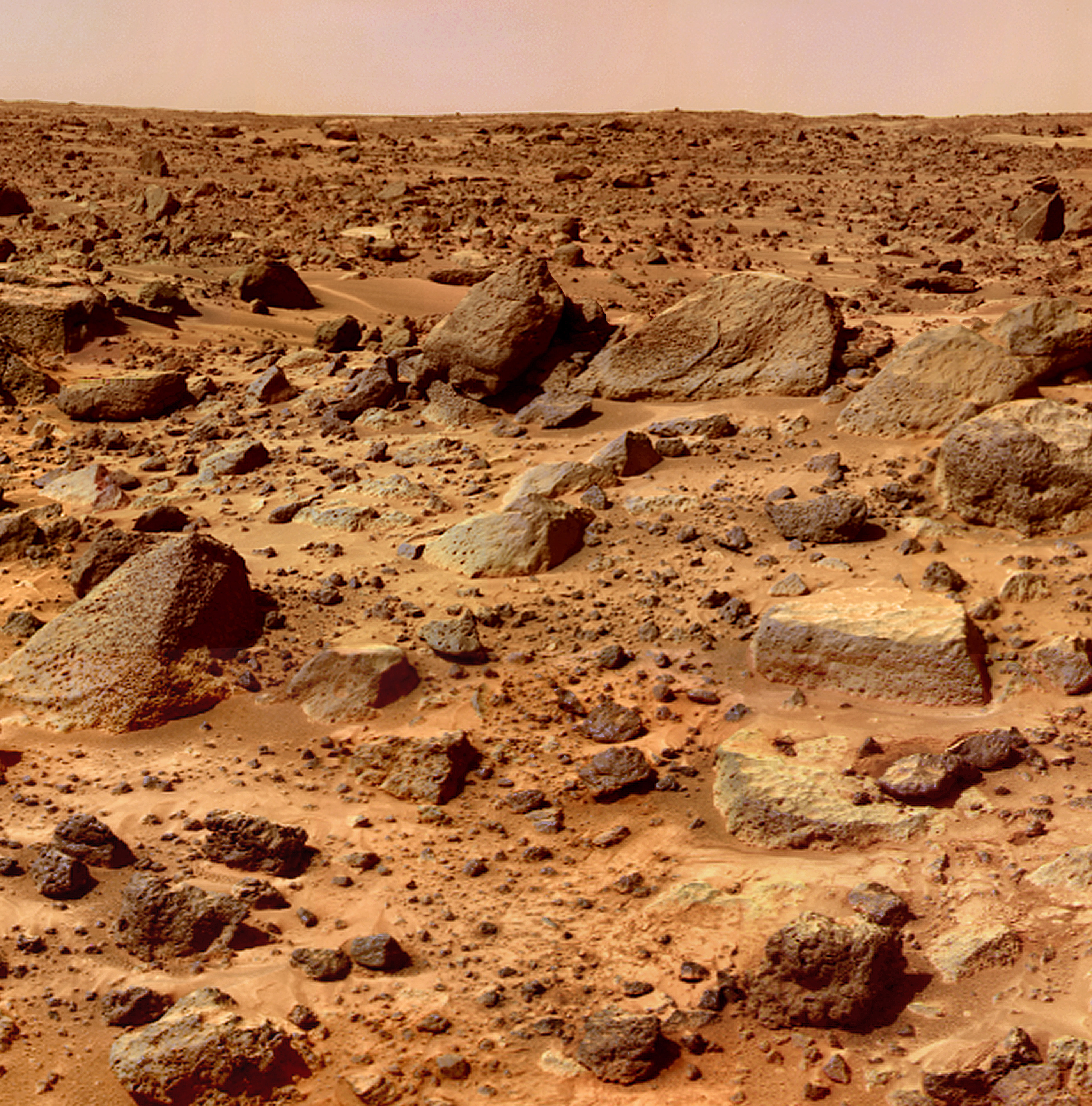 The Twin Peaks are modest-size hills to the southwest of the Mars Pathfinder landing site. They were discovered on the first panoramas taken by the IMP camera on the 4th of July, 1997, and subsequently identified in Viking Orbiter images taken over 20 years ago. The peaks are approximately 30-35 meters (-100 feet) tall. North Twin is approximately 860 meters (2800 feet) from the lander, and South Twin is about a kilometer away (3300 feet). The scene includes bouldery ridges and swales or "hummocks" of flood debris that range from a few tens of meters away from the lander to the distance of the South Twin Peak. The composite color frames that make up this "right-eye" image consist of 7 frames, taken with different color filters that were enlarged by 500% and then co-added using Adobe Photoshop to produce, in effect, a super-resolution panchromatic frame that is sharper than an individual frame would be. This panchromatic frame was then colorized with the red, green, and blue filtered images from the same sequence. The color balance was adjusted to approximate the true color of Mars. This image and PIA02405(left eye) make up a stereo pair. Mars Pathfinder is the second in NASA's Discovery program of low-cost spacecraft with highly focused science goals. The Jet Propulsion Laboratory, Pasadena, CA, developed and manages the Mars Pathfinder mission for NASA's Office of Space Science, Washington, D.C. JPL is a division of the California Institute of Technology (Caltech). The IMP was developed by the University of Arizona Lunar and Planetary Laboratory under contract to JPL. Peter Smith is the Principal Investigator.